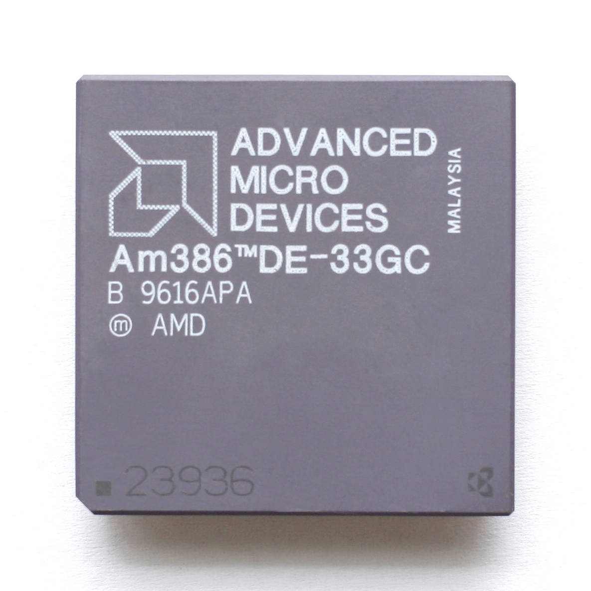 CPU AMD Am386DE